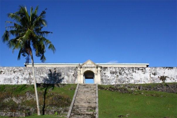 The fort is located in the city Saparua